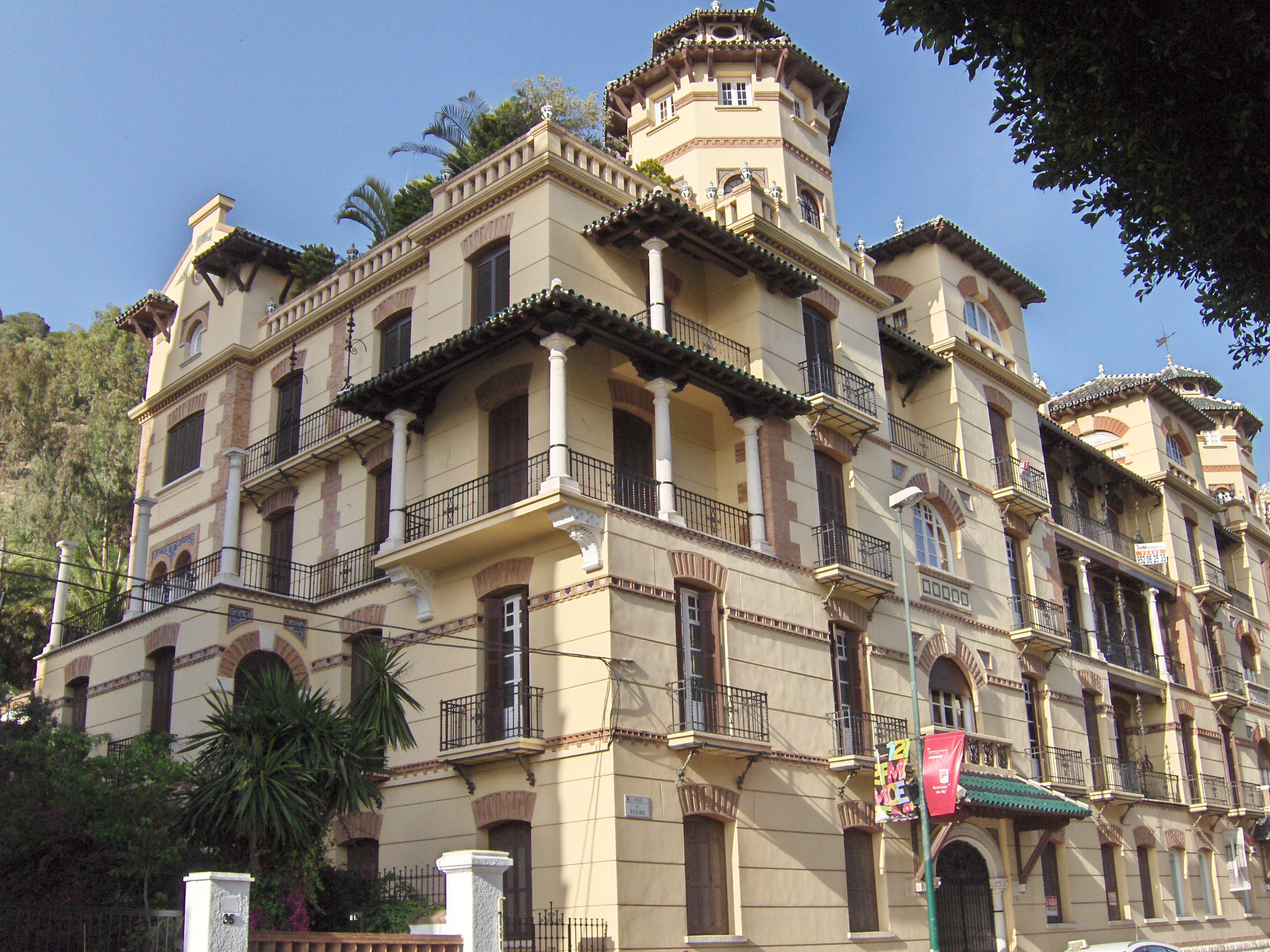 Casas de Félix Sáenz